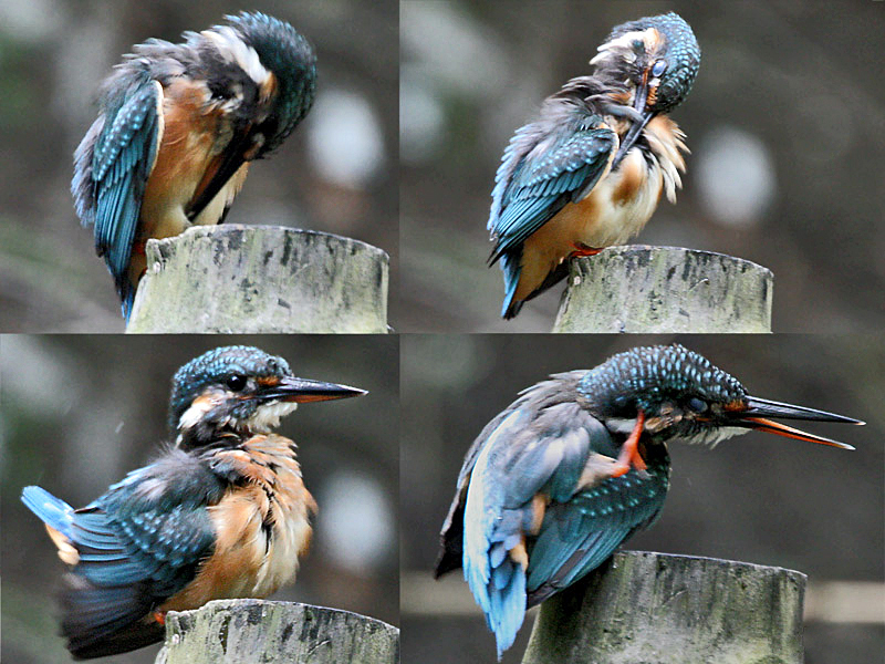 Common Kingfisher Alcedo atthis in Kolkata, West Bengal, India.